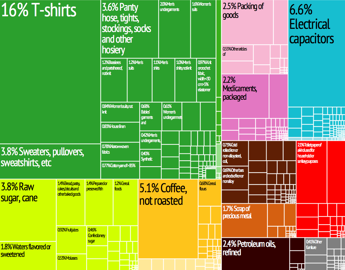 El Salvador Export Treemap from MIT Harvard Economic Complexity Observatory